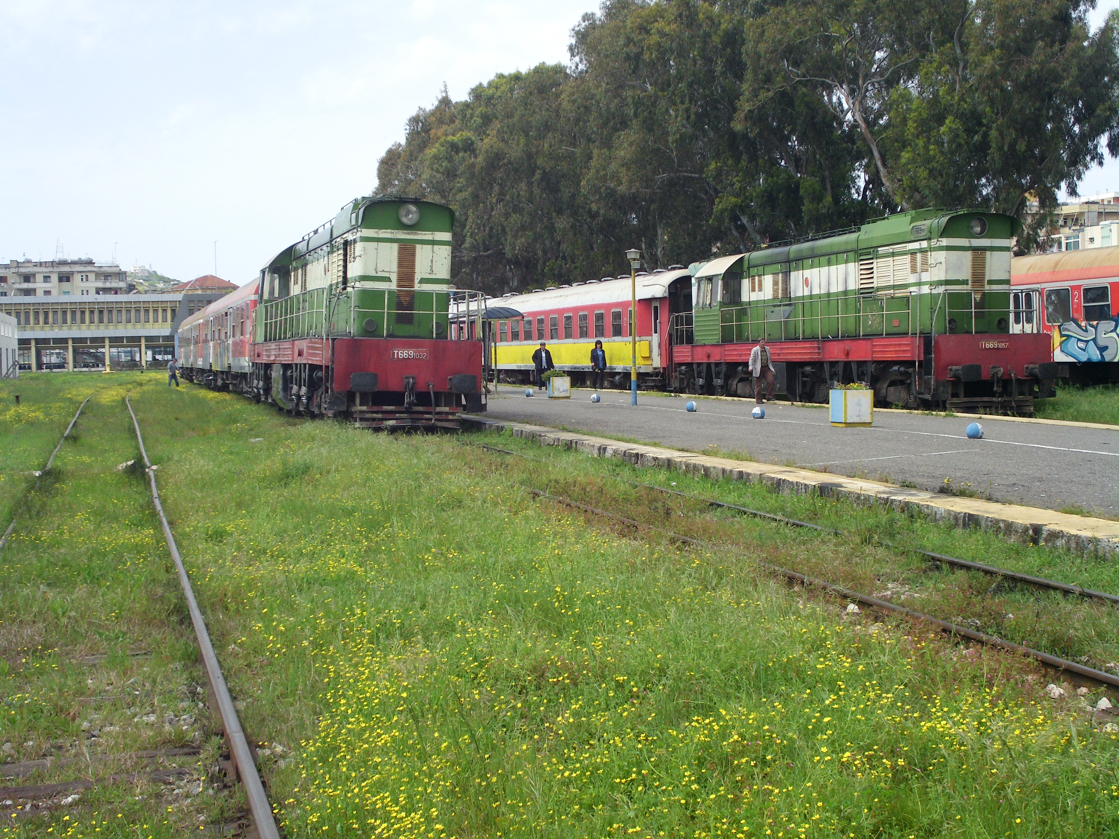 Two passenger trains at a station in Durrës, Albania, headed by ČKD T-669 diesel locomotives T669.1032 and T669.1057.